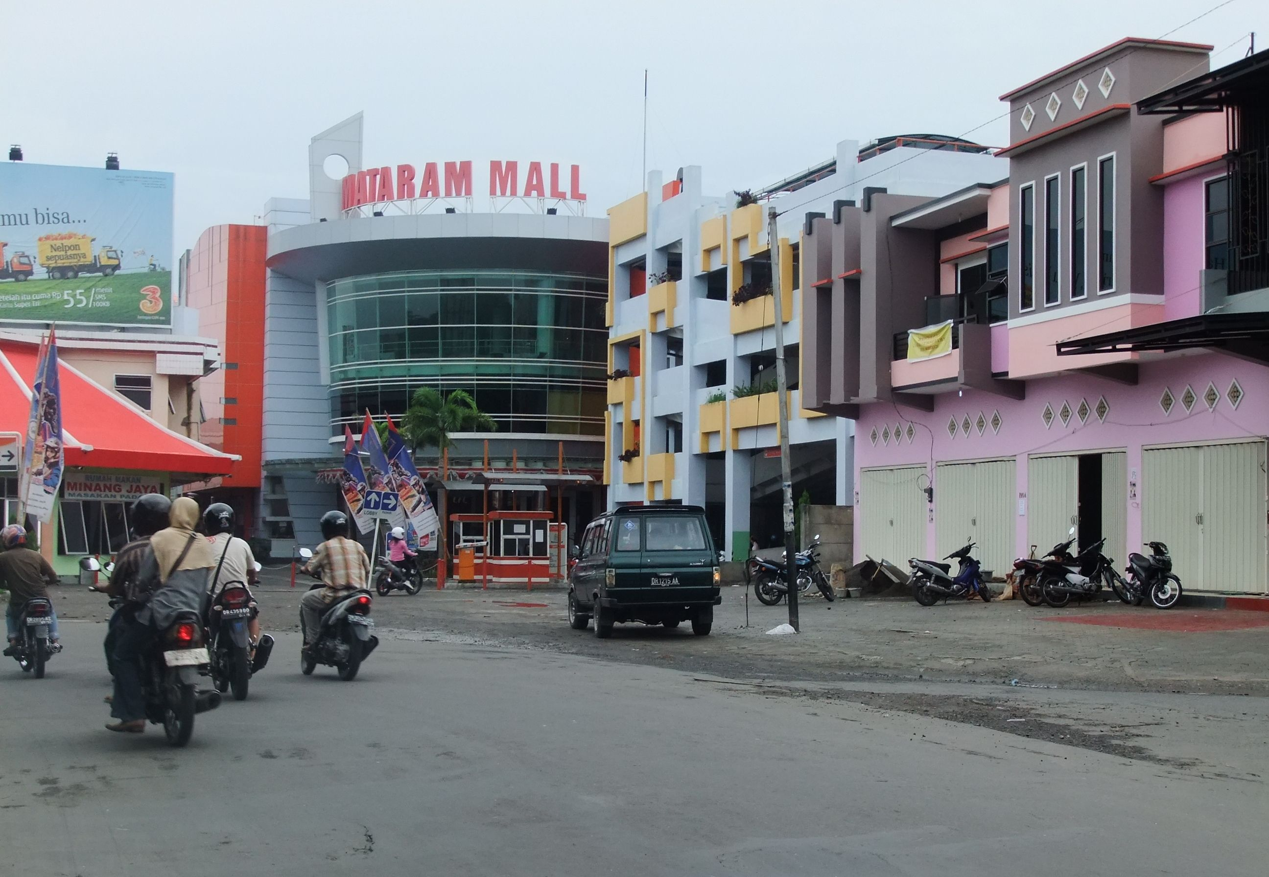 Mataram Mall, Lombok, Indonesia